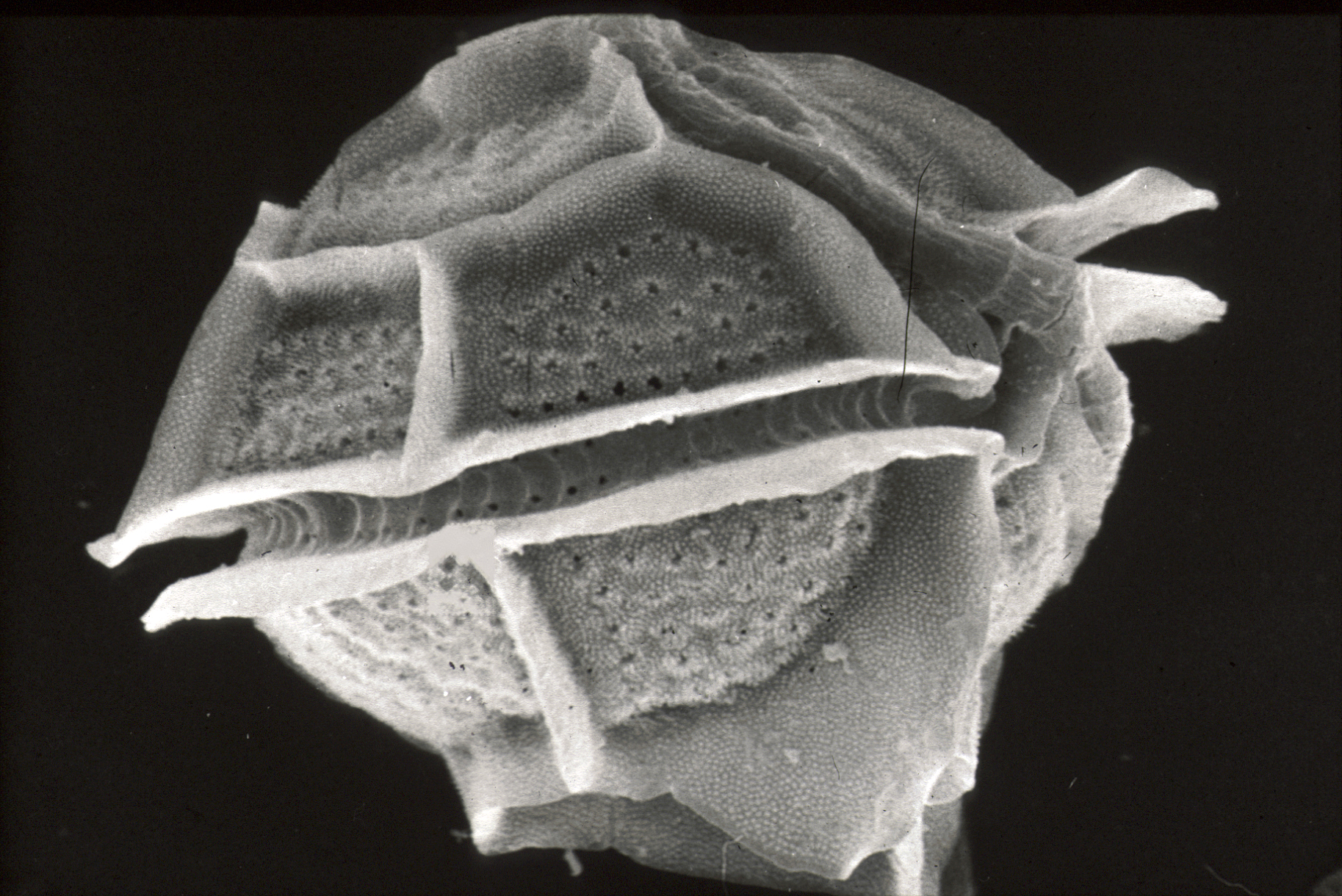 Pyrodinium bahamense imaged with an electron microscope